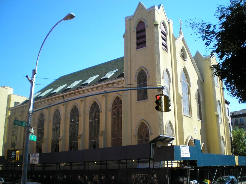 Saint Brigid's church, slated for demolition, on the corner of Avenue B and 8th Street.